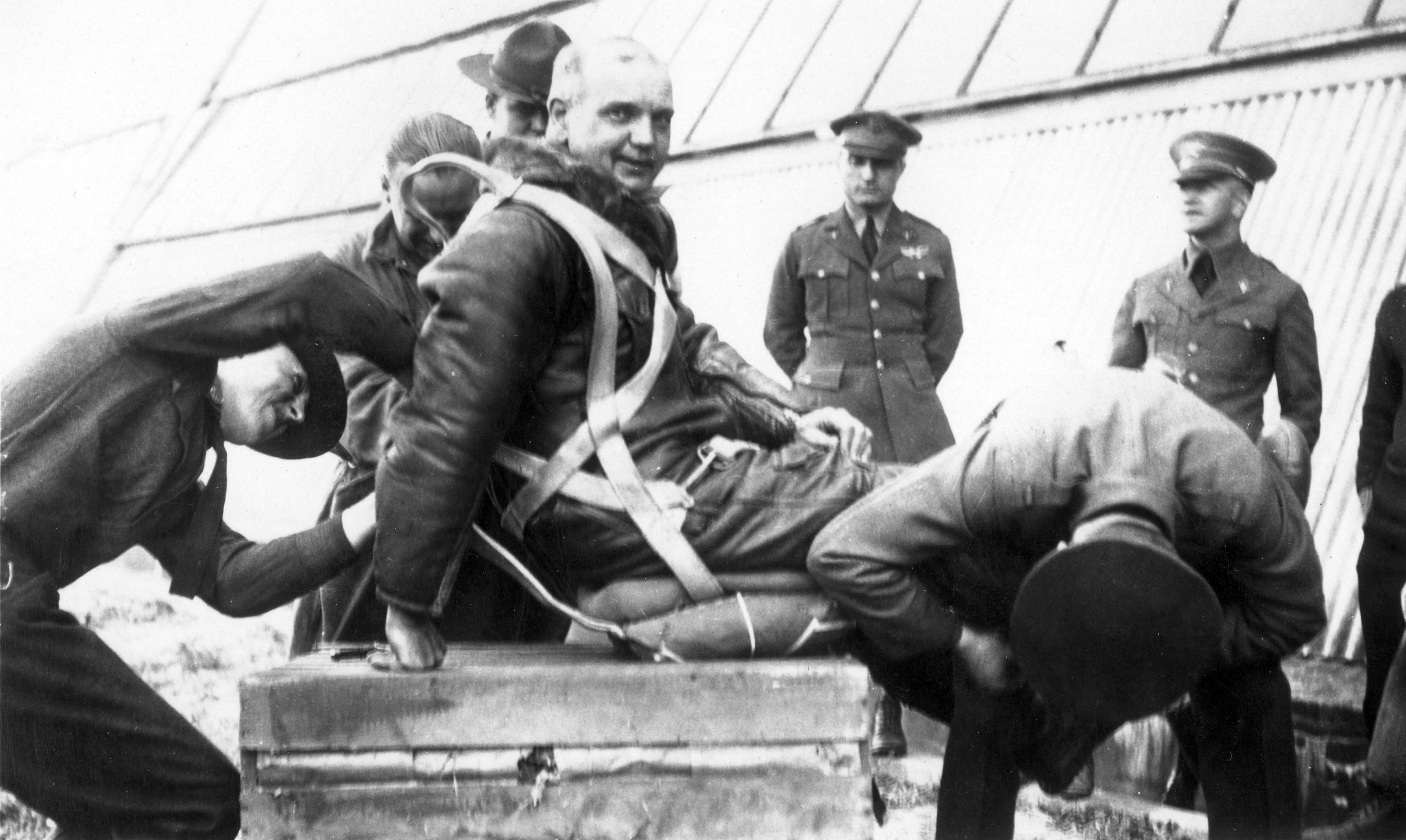 Captain Hawthorne Gray on his world altitude record attempt, 4 November 1927. Gray would die during his flight. From Scott Air Force Base Historical Photos.